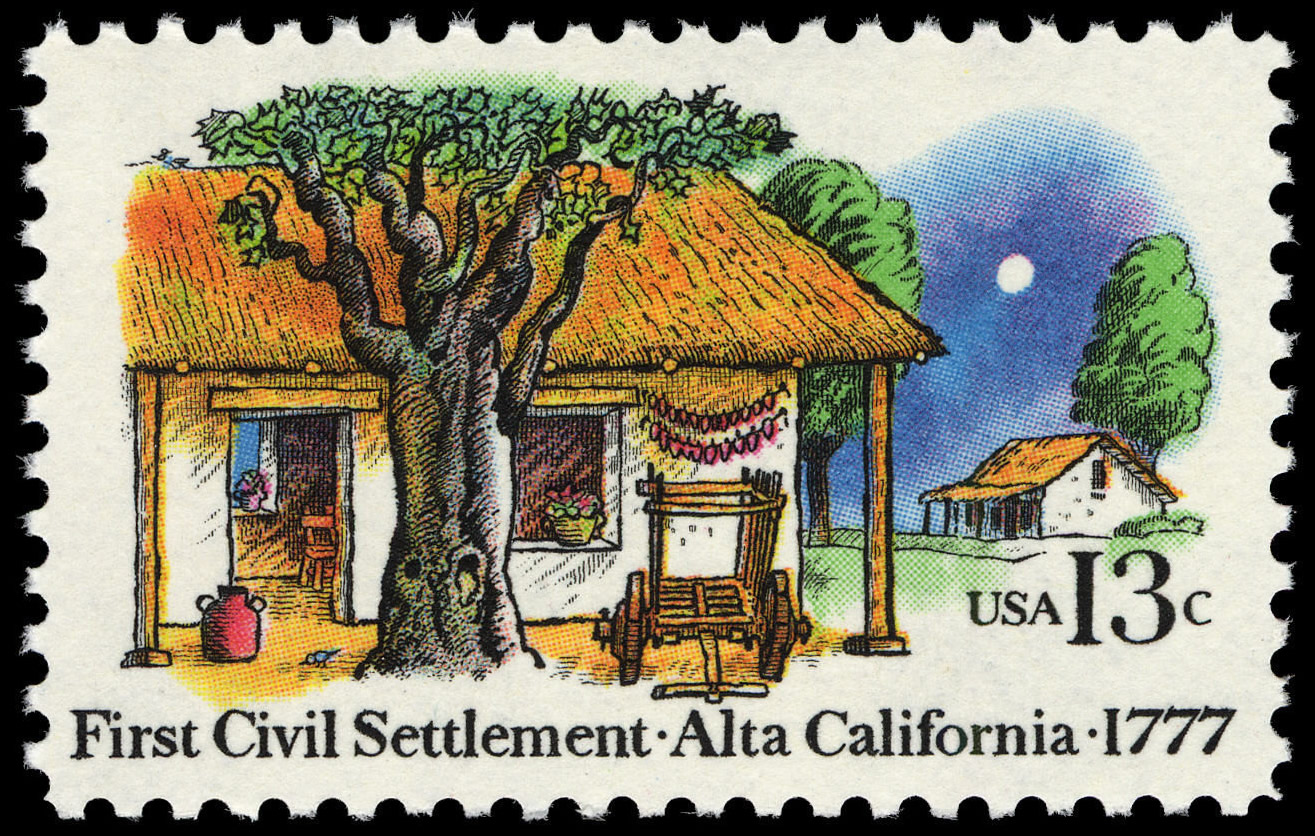 Alta California 13c 1977 issue U.S. stamp. The stamp commemorates the 200th anniversary of the founding of El Pueblo de San José de Guadalupe, the first civil settlement in Alta California.